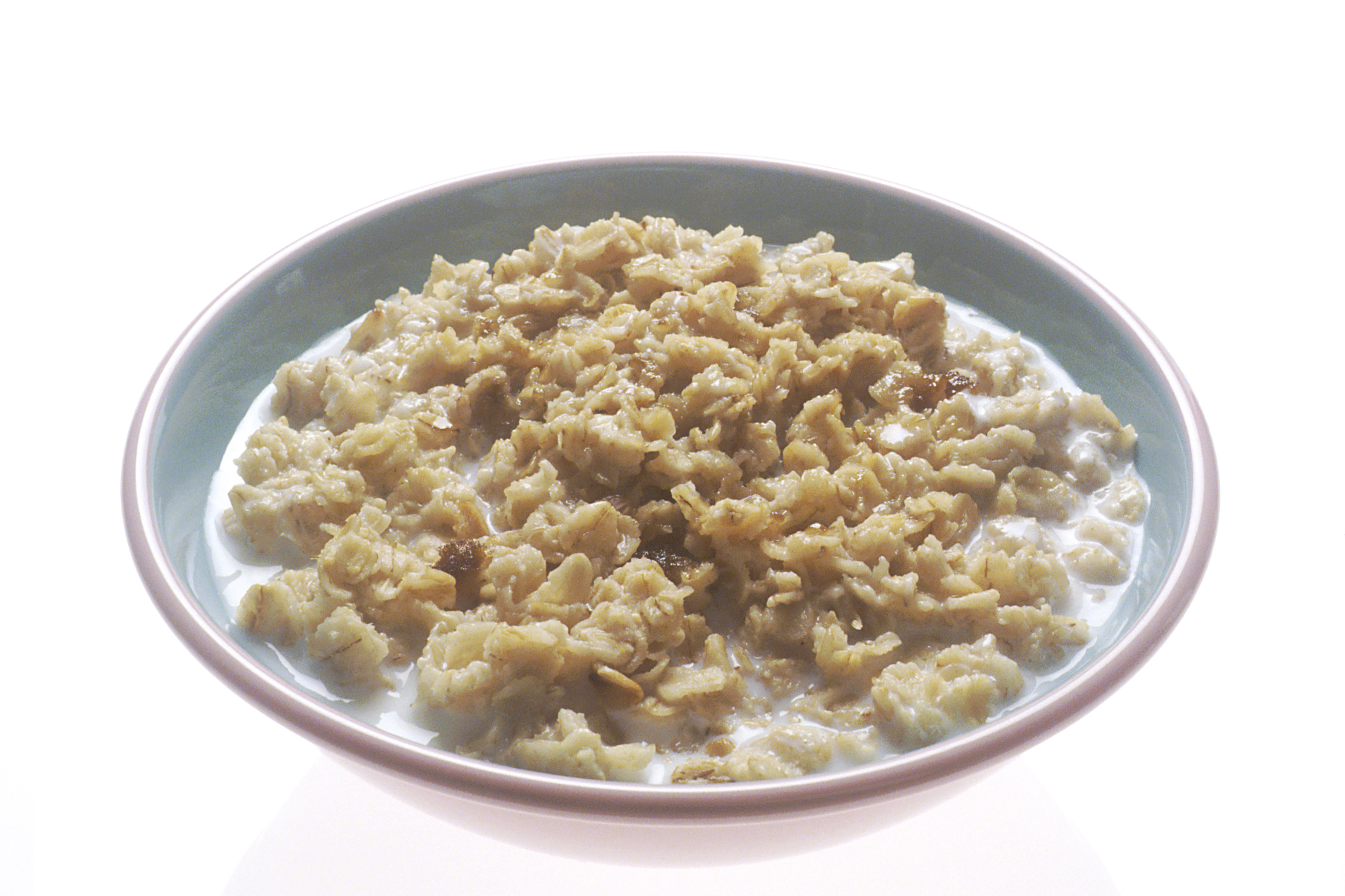 Title Oatmeal Description A single bowl of cooked hot cereal, oatmeal with milk. Topics/Categories Food and Drink Type Color, Photo Source National Cancer Institute